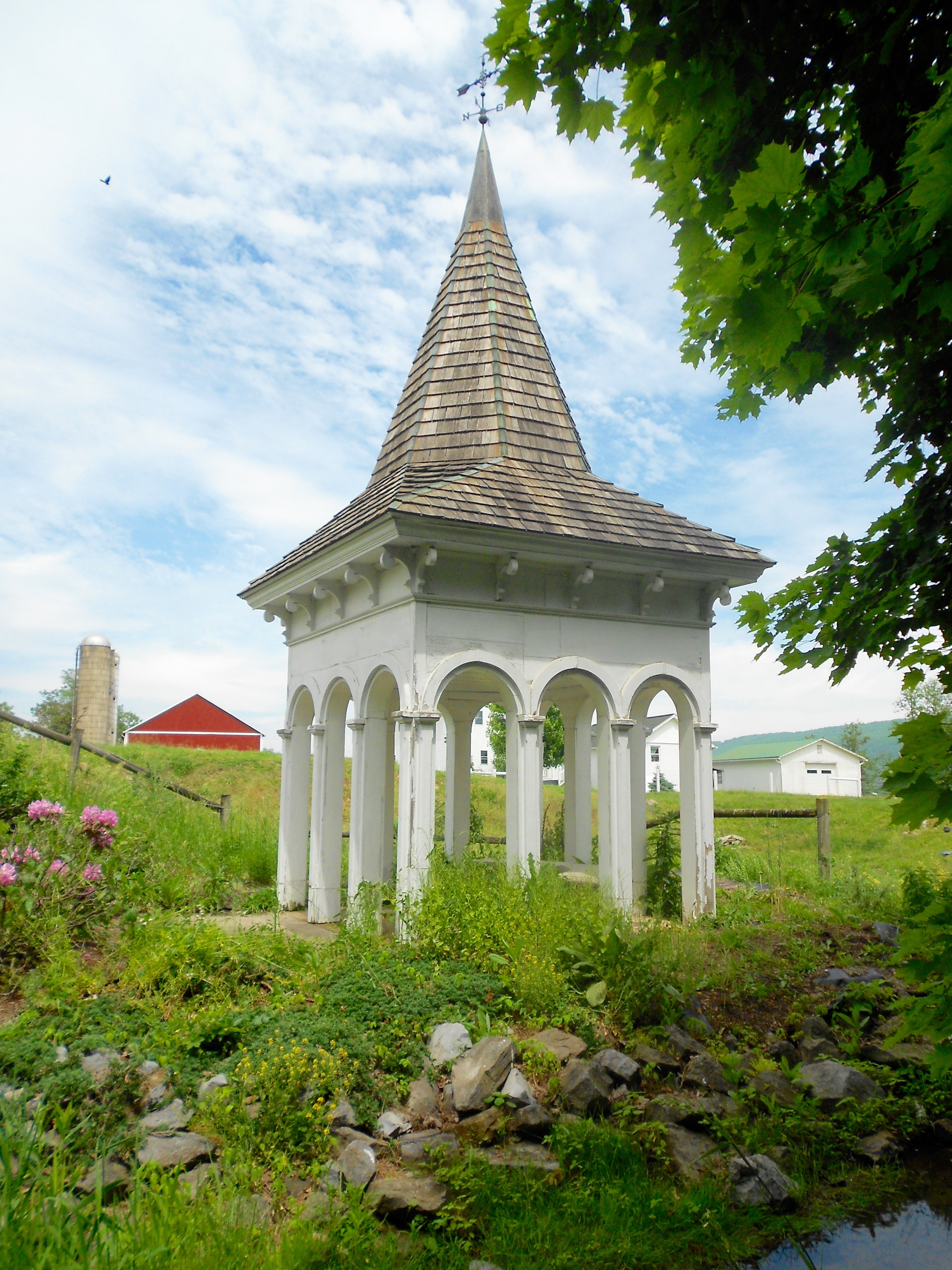 A gazebo in Allensville, Pennsylvania apparently made from a church steeple. The gazebo is just off the parking lot of the Allensville Community Church, down by a creek. The church looks like it might have lost a steeple a few years ago and had it replaced by a shorter simpler version.